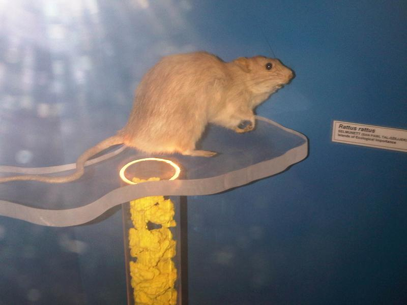 Taxidermied black rat (Rattus rattus) at the National Museum of Natural History, Vilhena Palace, Republic of Malta.